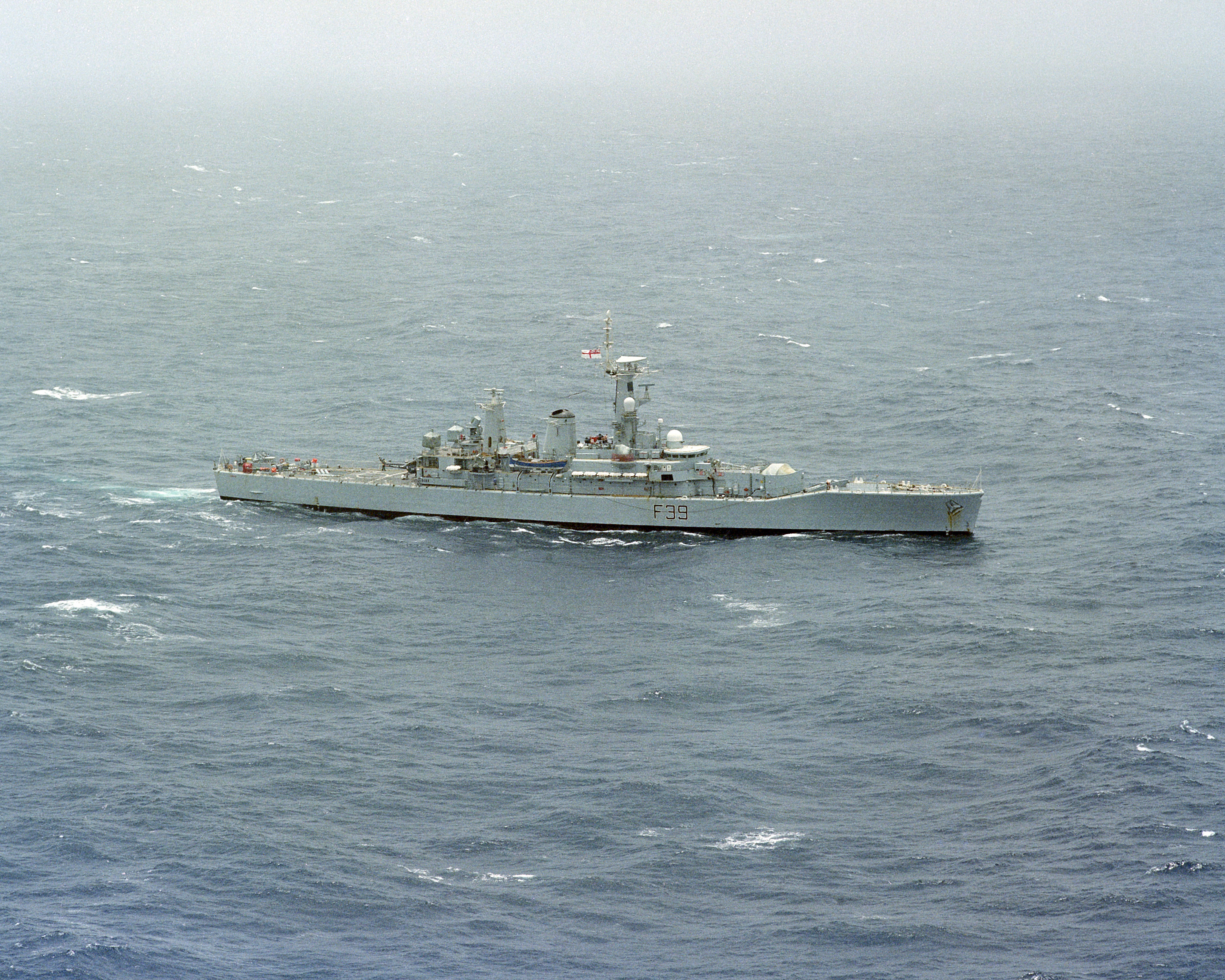 The British Leander-class frigate HMS Naiad (F39) underway in the North Atlantic, circa 1981-82. Note the Westland Wasp helicopter aft.